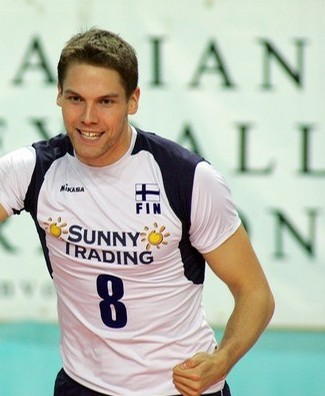 Finland national team setter Simo-Pekka Olli celebrating